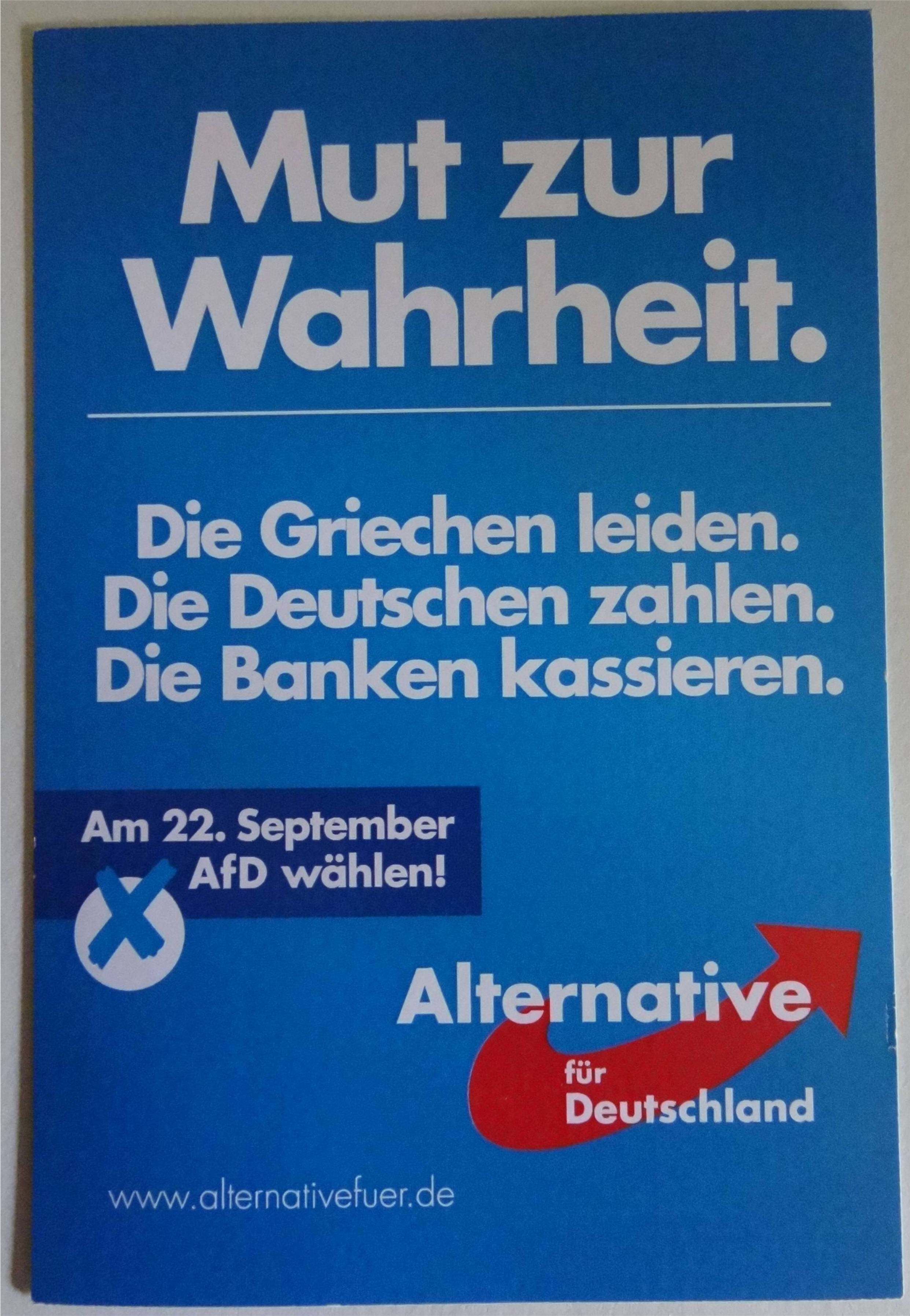 Election poster of the AfD (Alternative für Deutschland) for the 2013 German federal elections. It says : Courage to speak out (or to face) the truth. / The Greek suffer / the Germans pay / the banks take it all. /